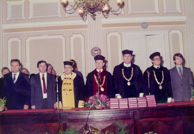 Opening ceremony at University of Szeged. In the centre is Béla Csákány, Rector of the University. 10.09.1985.